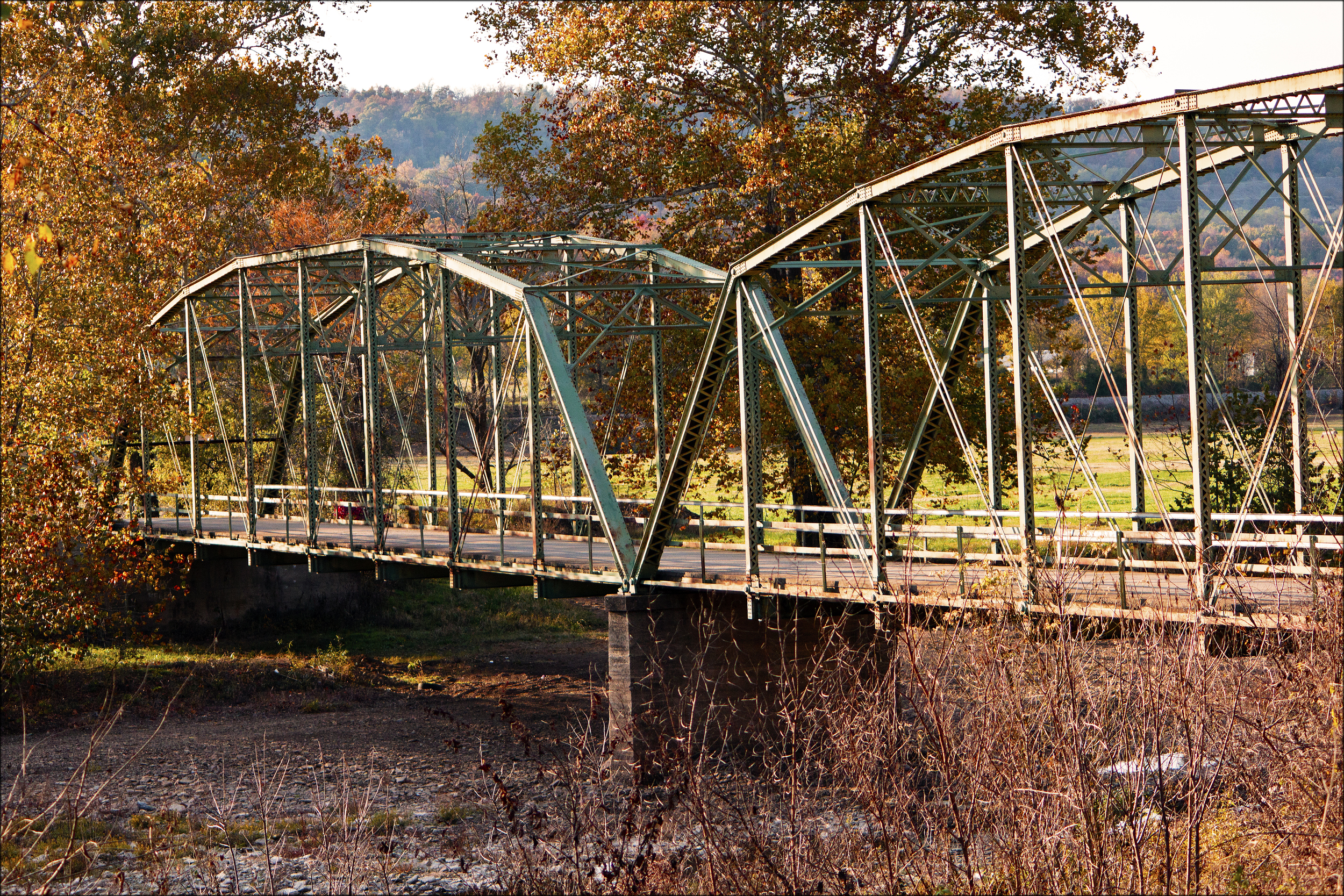 After leaving Devil's Den State Park we journeyed up Old Highway 71 where I finally stopped to take a picture of this bridge in Woolsey. From the highway, it looks as if the bridge crosses the stream and ends. There is a small road that takes you to the entrance from Hwy 71.